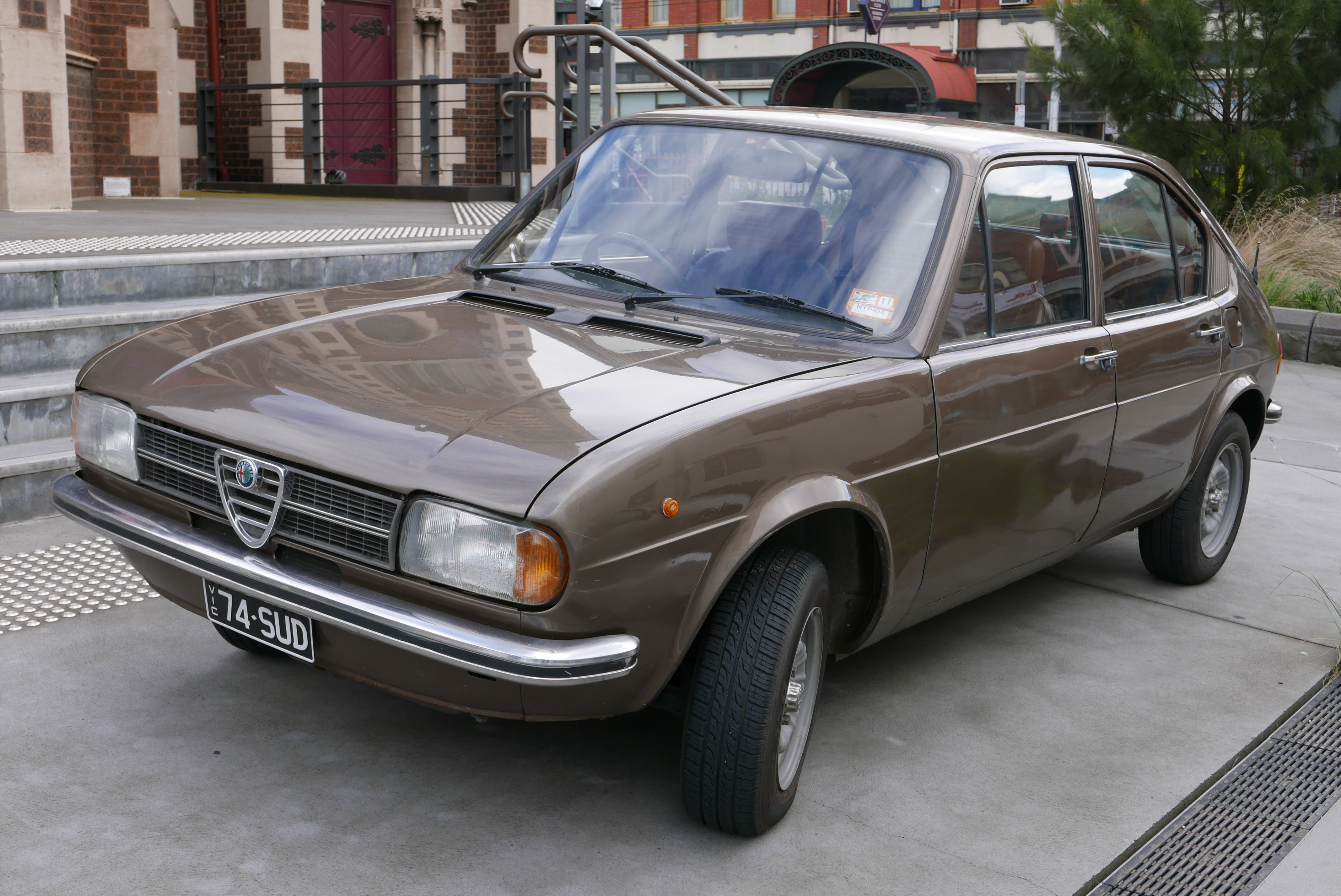 1974 Alfa Romeo Alfasud 4-door sedan. Photographed in Brunswick, Victoria, Australia. Vehicle registration enquiry results Jurisdiction Victoria Registration 74SUD Chassis code AS541106901A Engine code AS301260002058 Compliance date 1974-10 Year of manufacture 1974